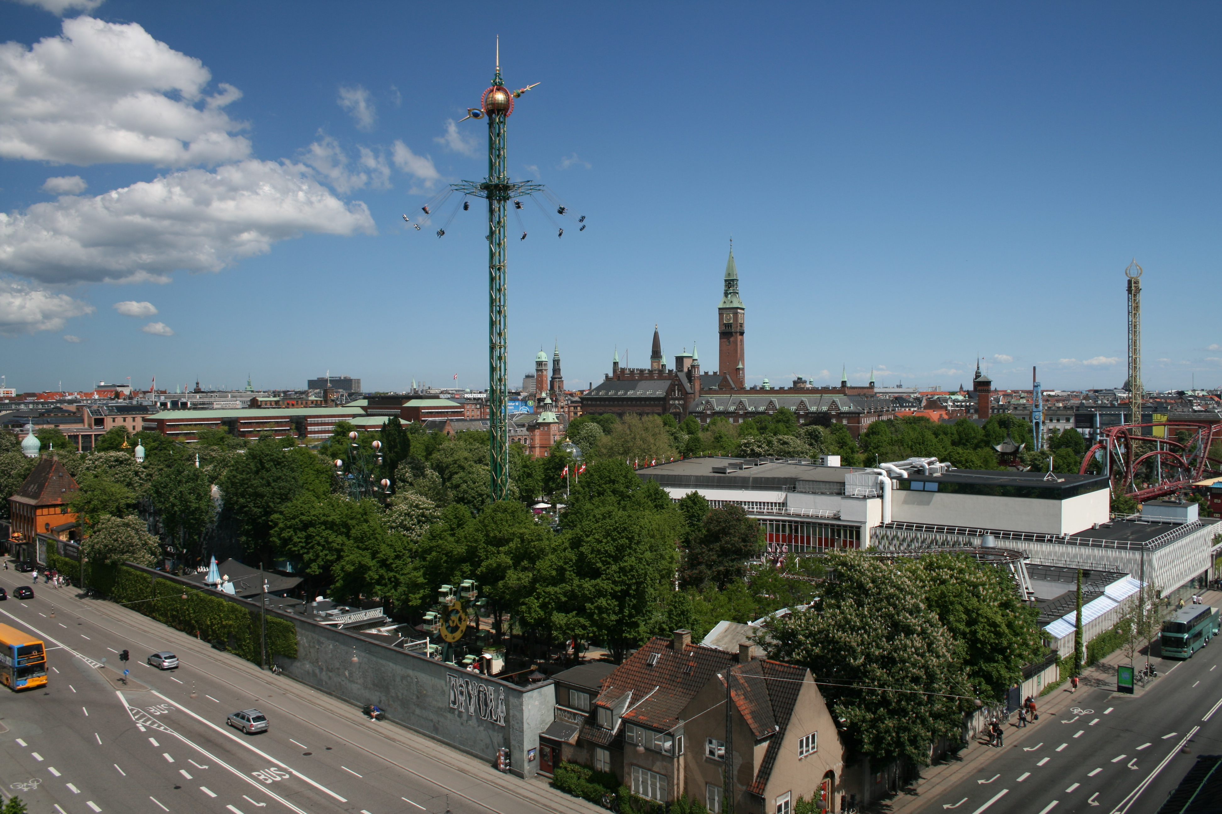 Birds view image of Tivoli Gardens